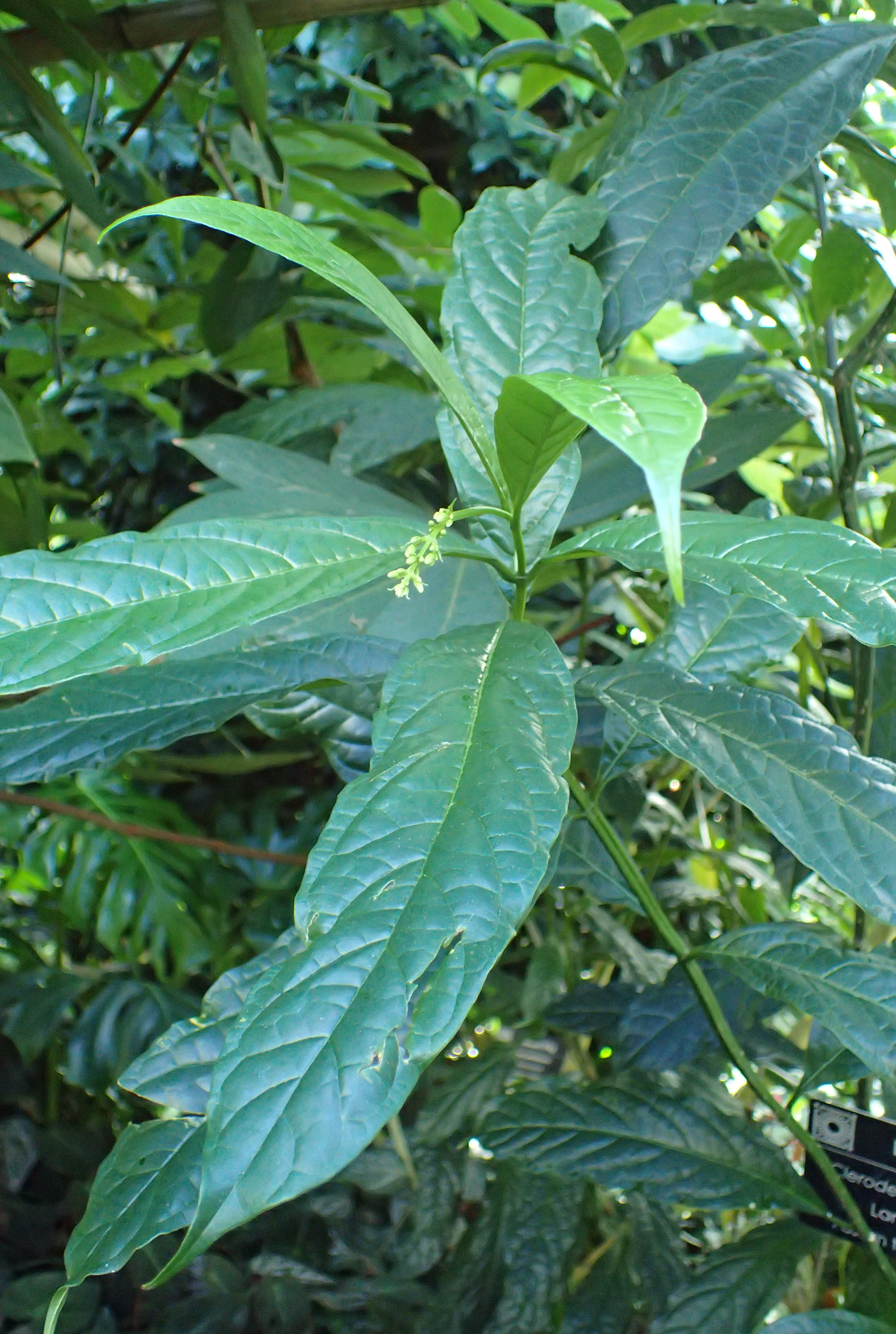 Clerodendrum nutans in Boltz Conservatory, Madison, Wi